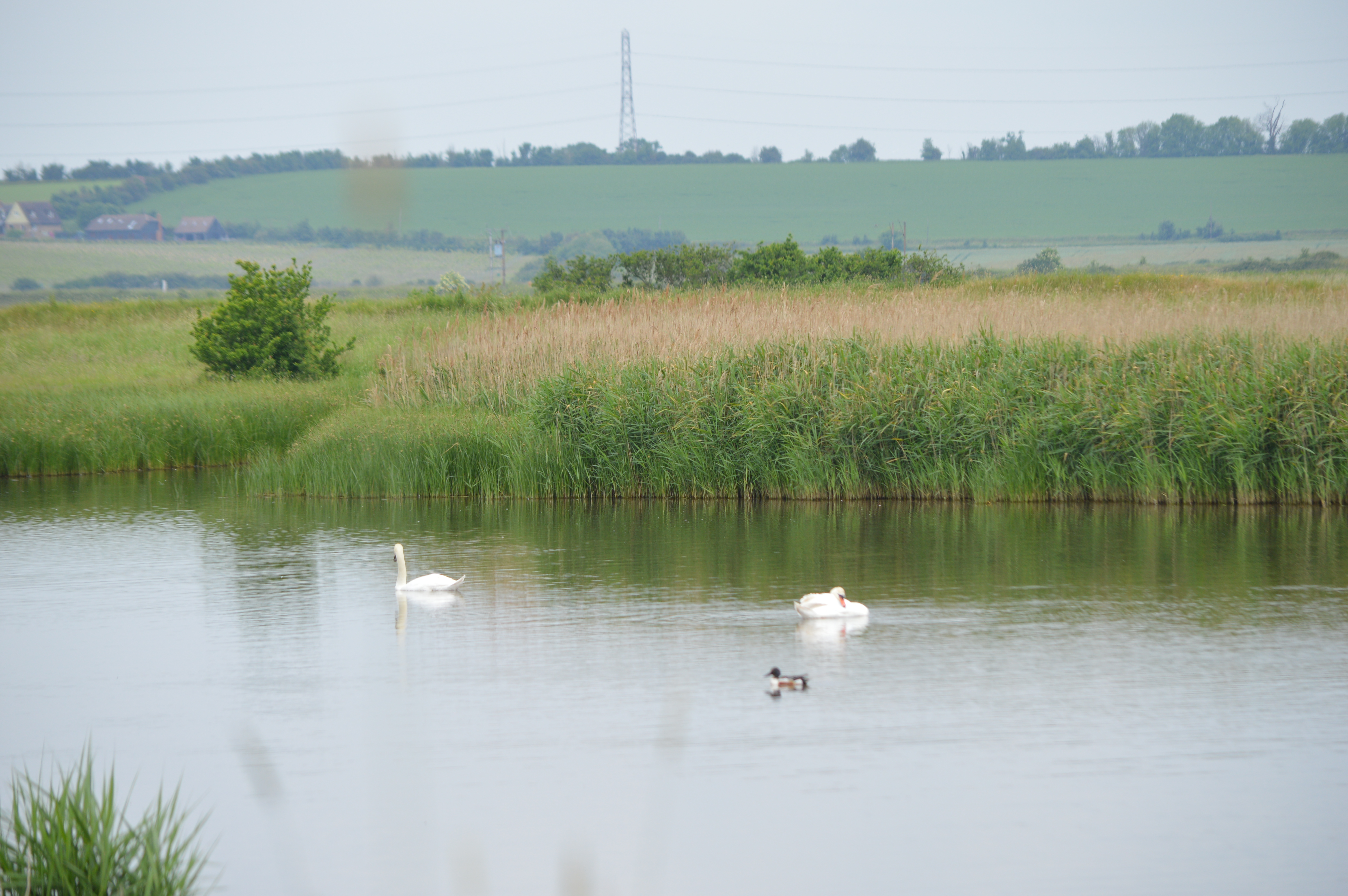 Blue House Farm is a nature reserve and farm managed by the Essex Wildlife Trust. It is part of the 'Crouch and Roach Estuaries' Site of Special Scientific Interest.